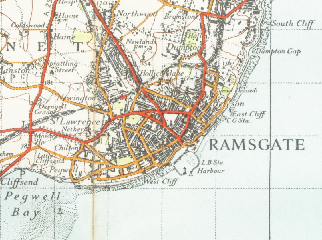 From the 1945 new popular addition sheet 173